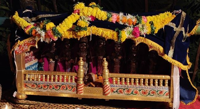 गावाच्या देवाची साने वर बसलेली पालखी